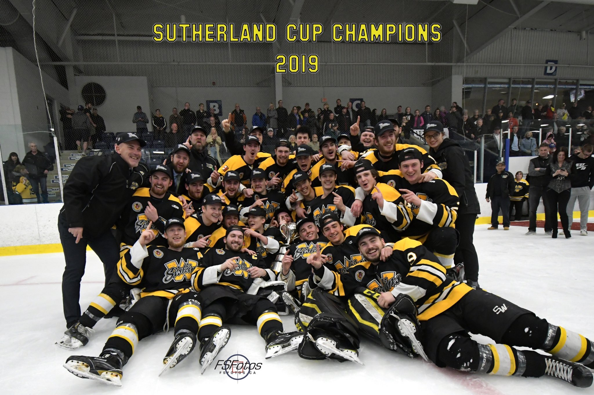 The Waterloo Siskins winning the 2018-19 Sutherland Cup on May 8, 2019.